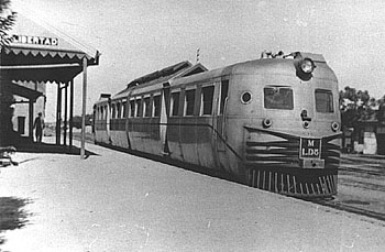 Libertad railway station (1960), Merlo Partido, Buenos Aires Province.